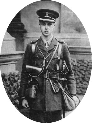 "THE PRINCE OF WALES IN WAR KIT. (Photo © by American Press Assn.)" from The Project Gutenberg eBook, The New York Times Current History: the European War, February, 1915.